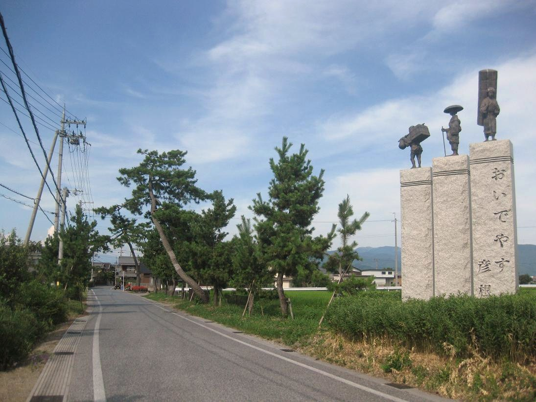 Old Nakasendo in Tsuzuracho, Hikone.